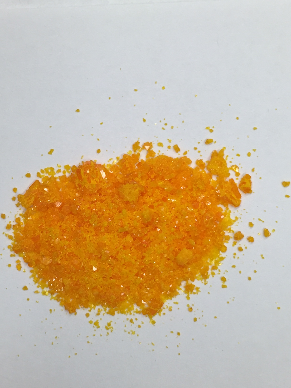 Sample of (NBu4)2[Mo6Cl14]